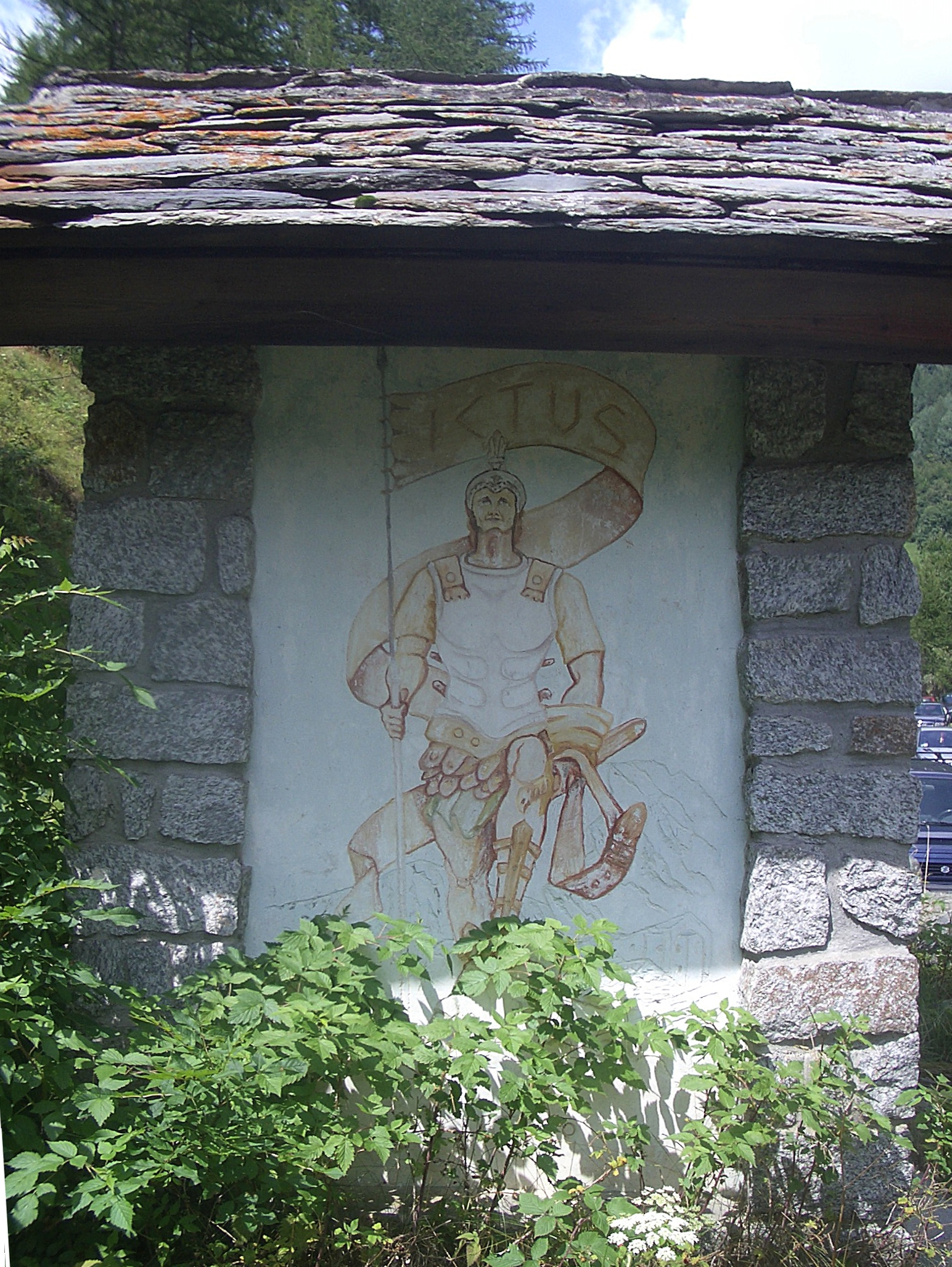 Campiglia (municipality of Valprato Soana), votive chapel with the image of San Besso